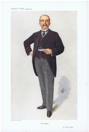 Caricature of George Younger, 1st Viscount Younger of Leckie MP. Caption read "Ayr Burghs".